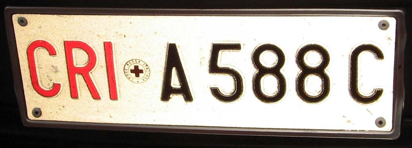 Italian Red Cross immatriculation plate, front, weared by an ambulance. This is the 2003-2007 type, the front and rear plates are identical.